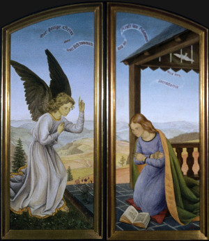 Altarbild of Liselotte Schramm-Heckmann, 1938 bis 1942